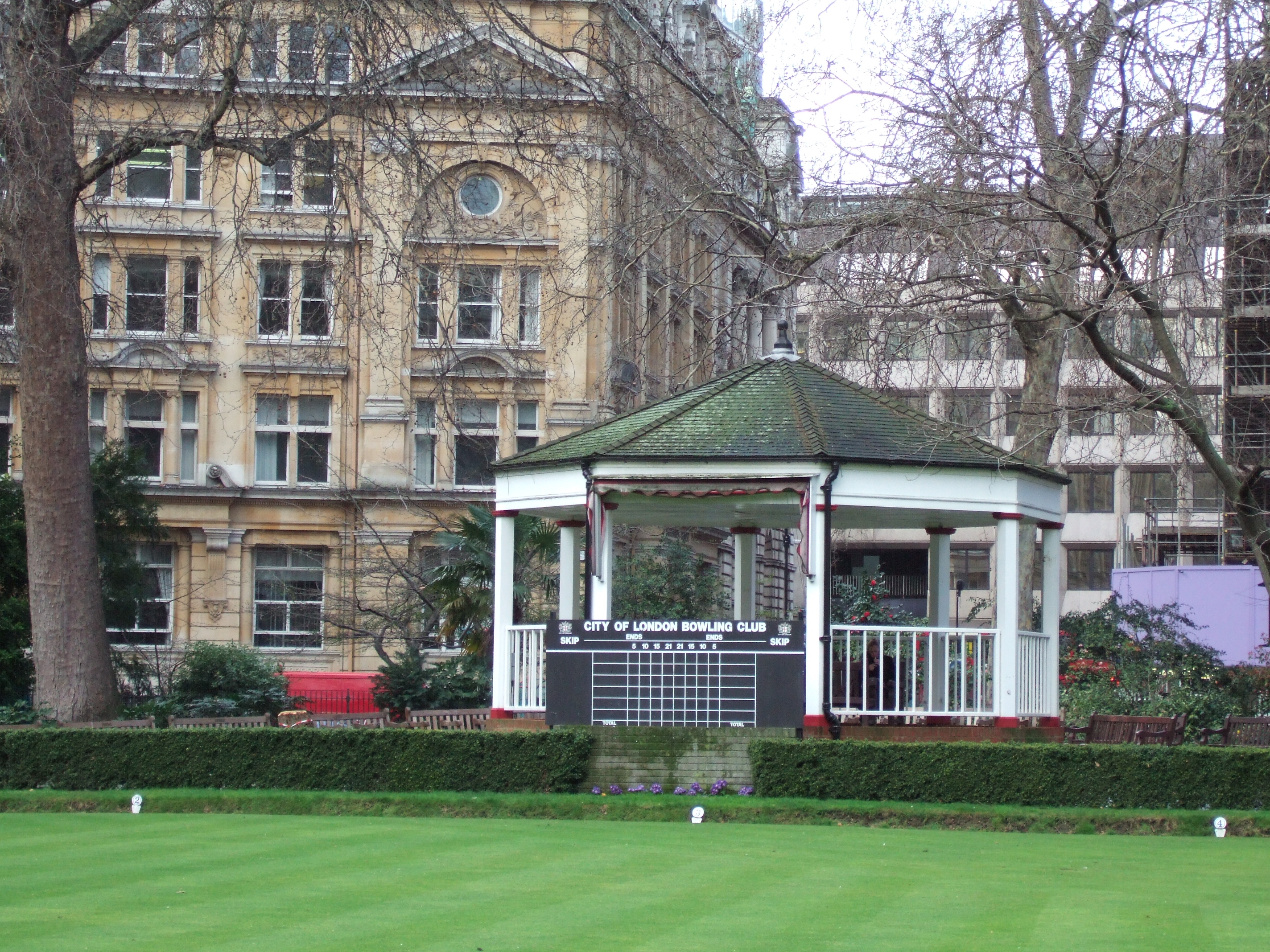 Finsbury Circus, City of London